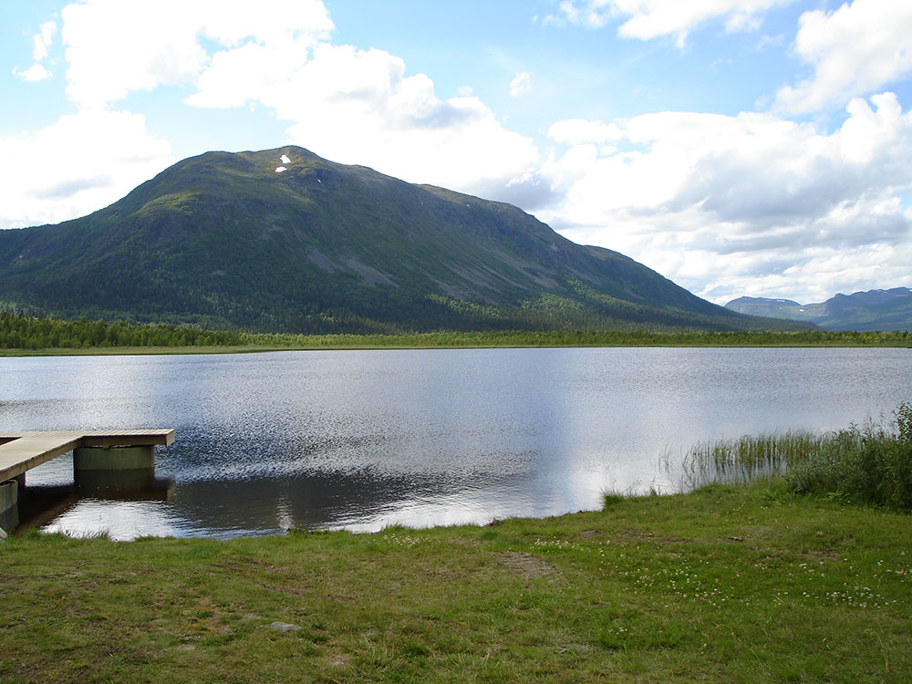 Lake Lillsjön in the village of Matsdal, Vilhelmina Municipality